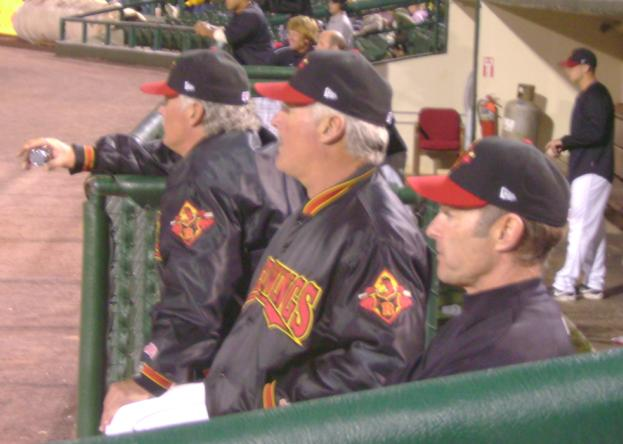 L to R Stu Cliburn, Stan Cliburn, Paul Molitor @ Frontier Field 5/15/08